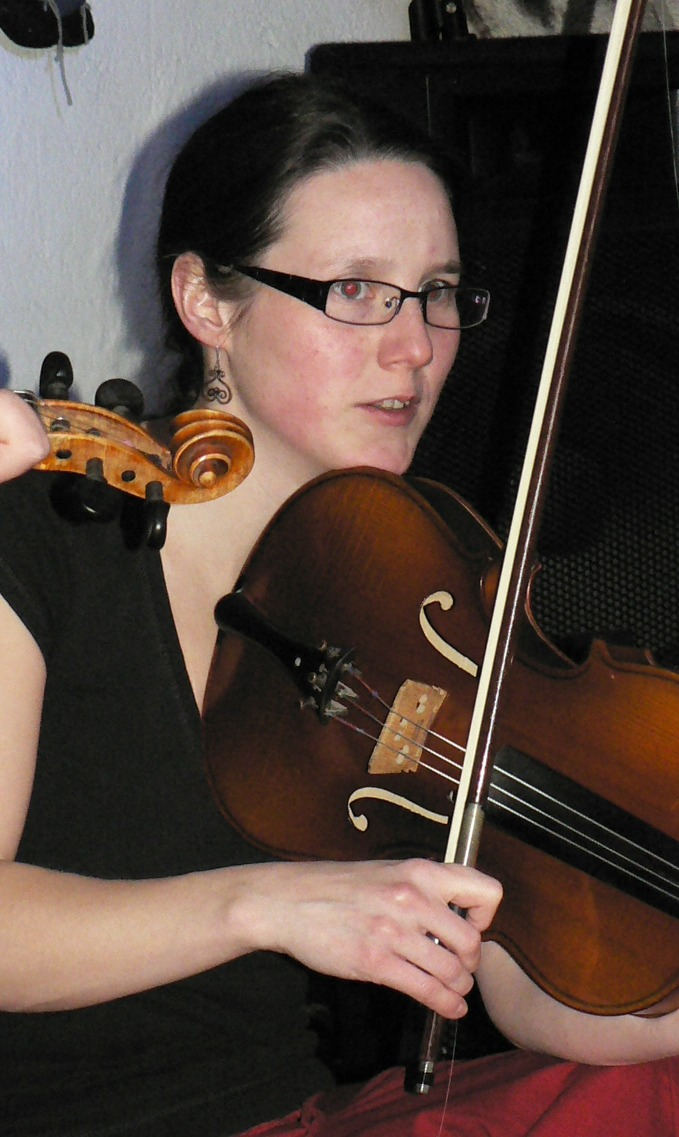 Rojtos - Danhauser Lilla (2012)